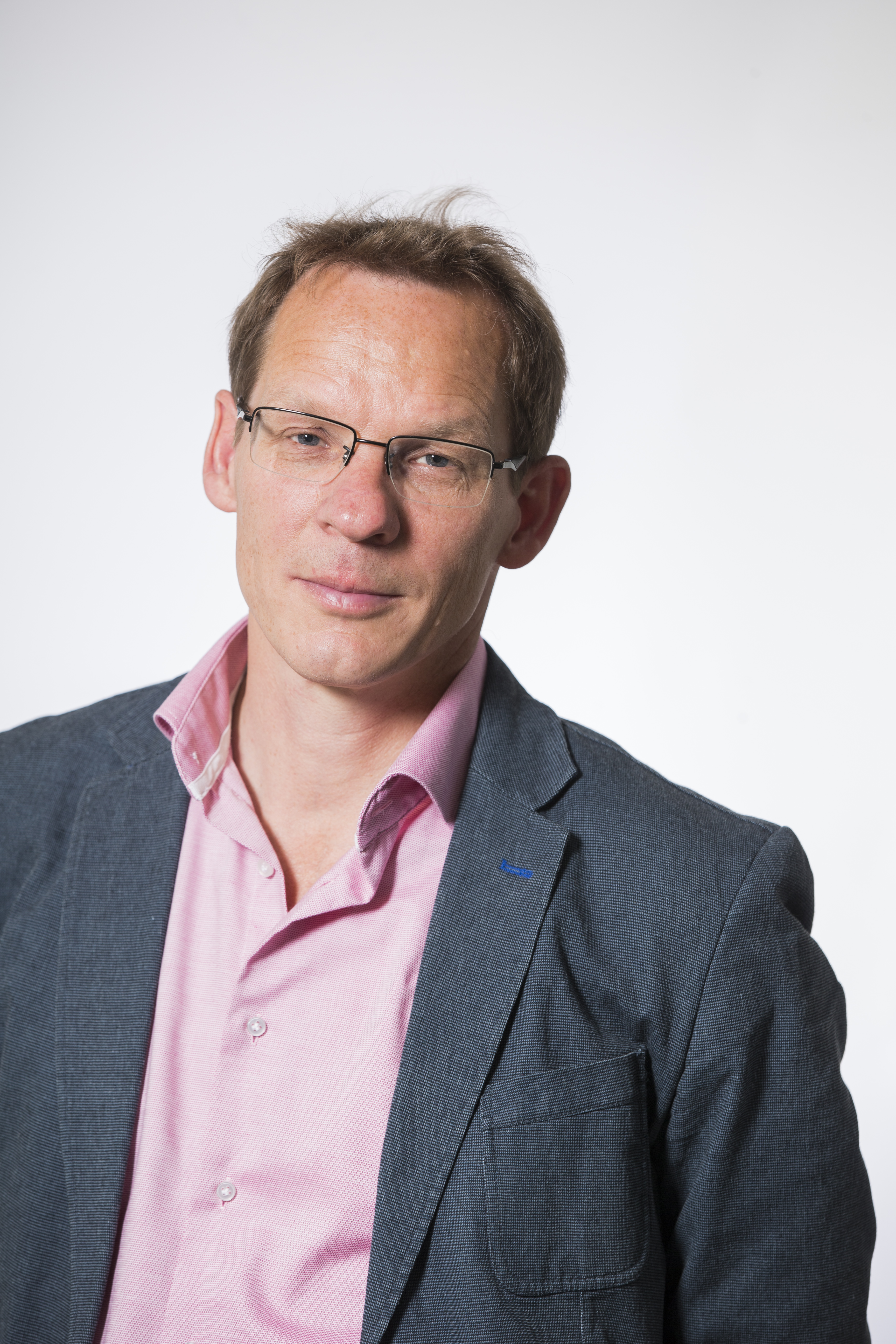 Dutch professor of history of philosophy (Rijksuniversiteit Groningen, the Netherlands) in 2016